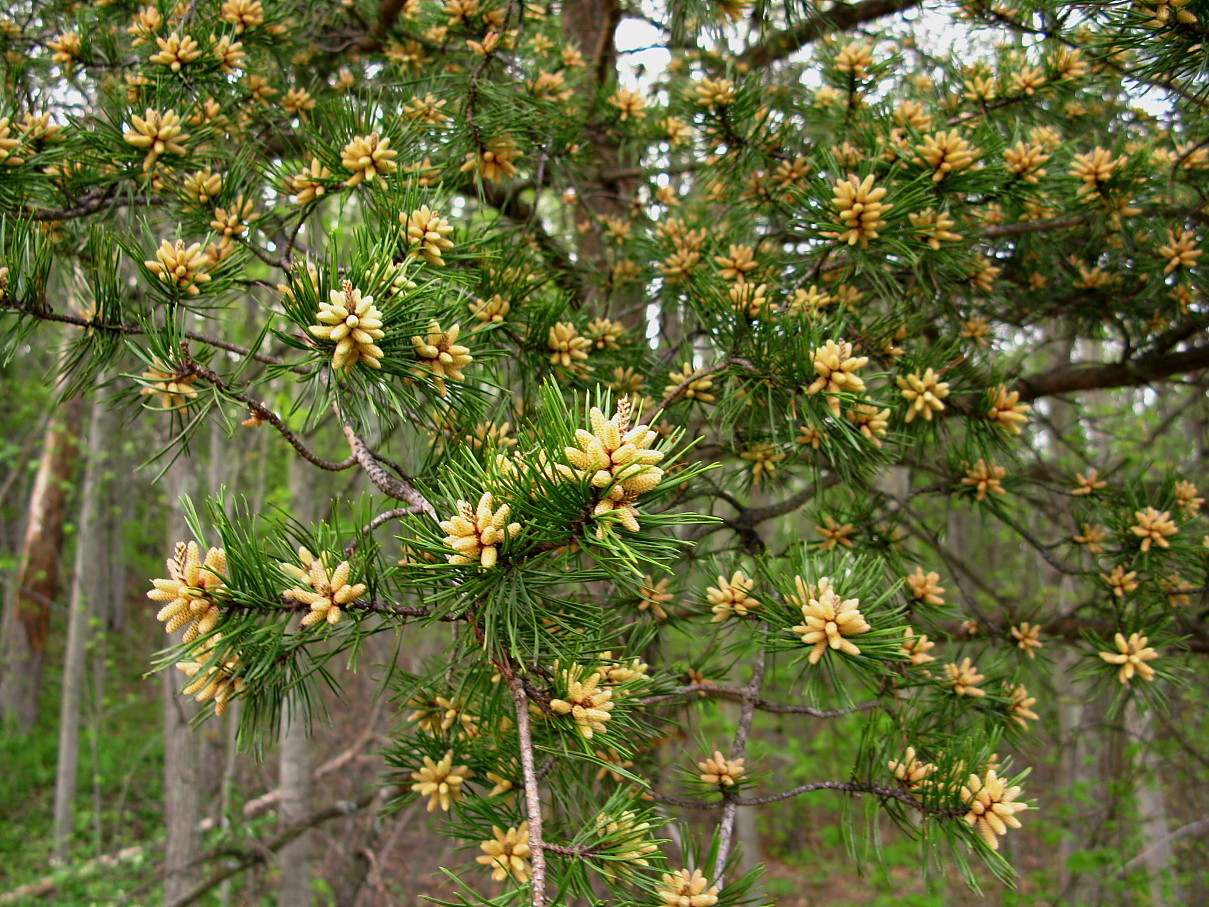 Pinus virginiana in spring